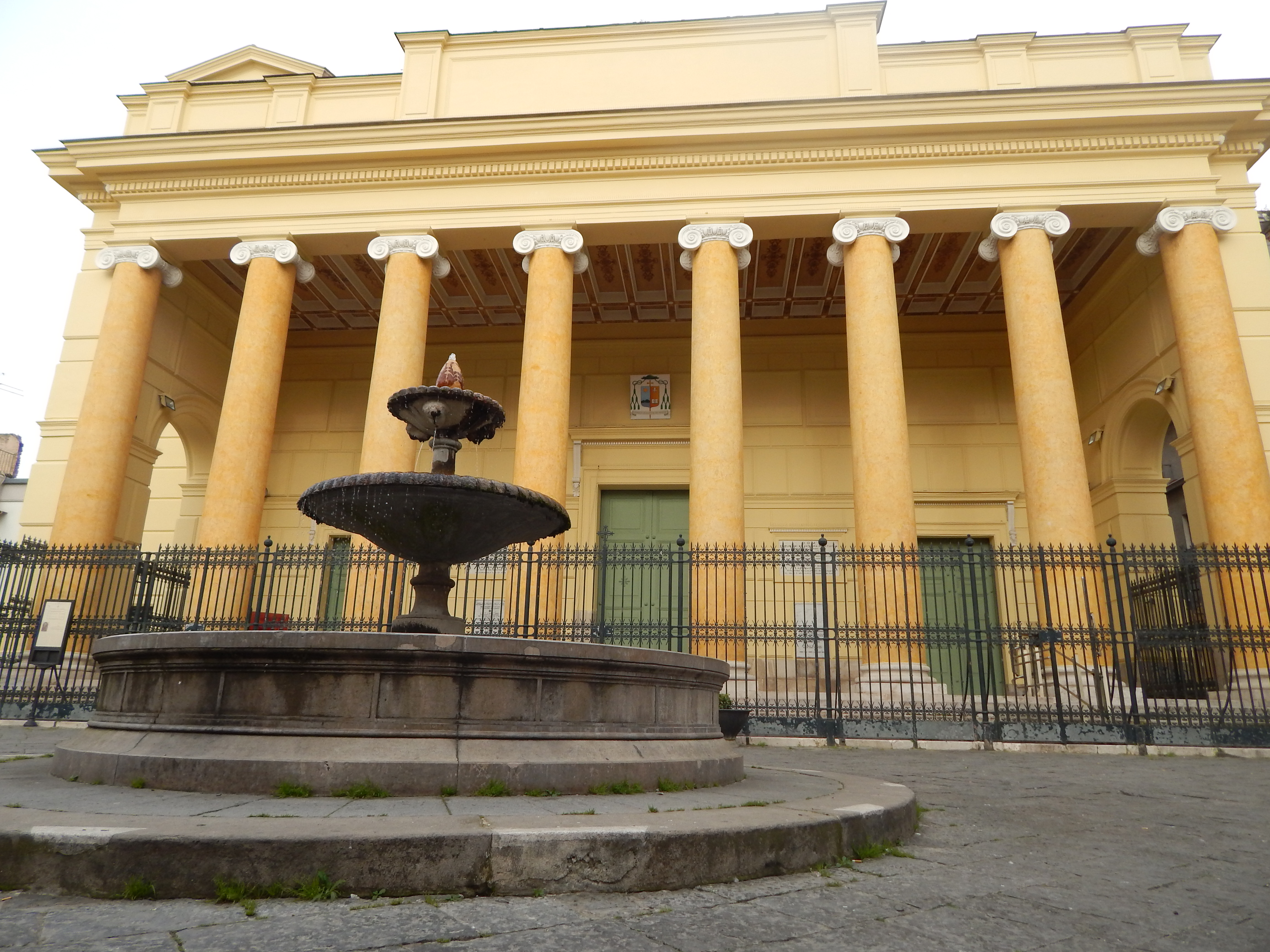 Cattedrale - vista piazza - Acerra